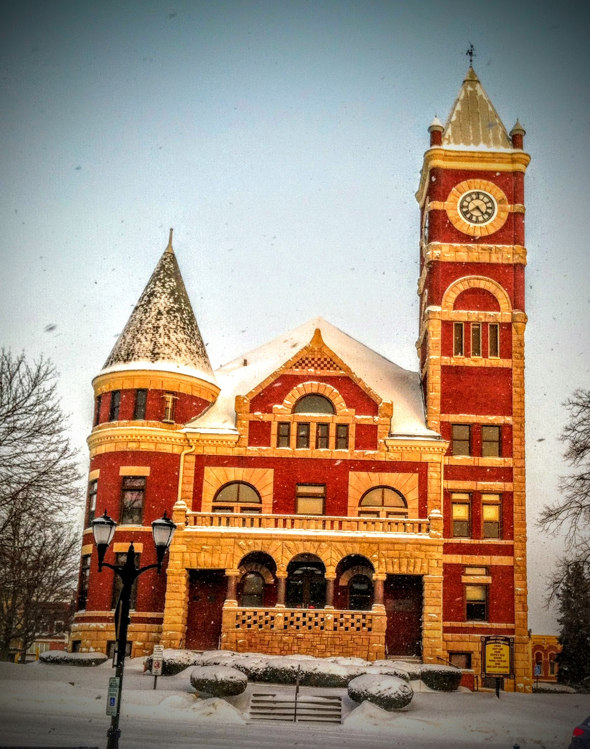 The Historic Monroe Counrthouse